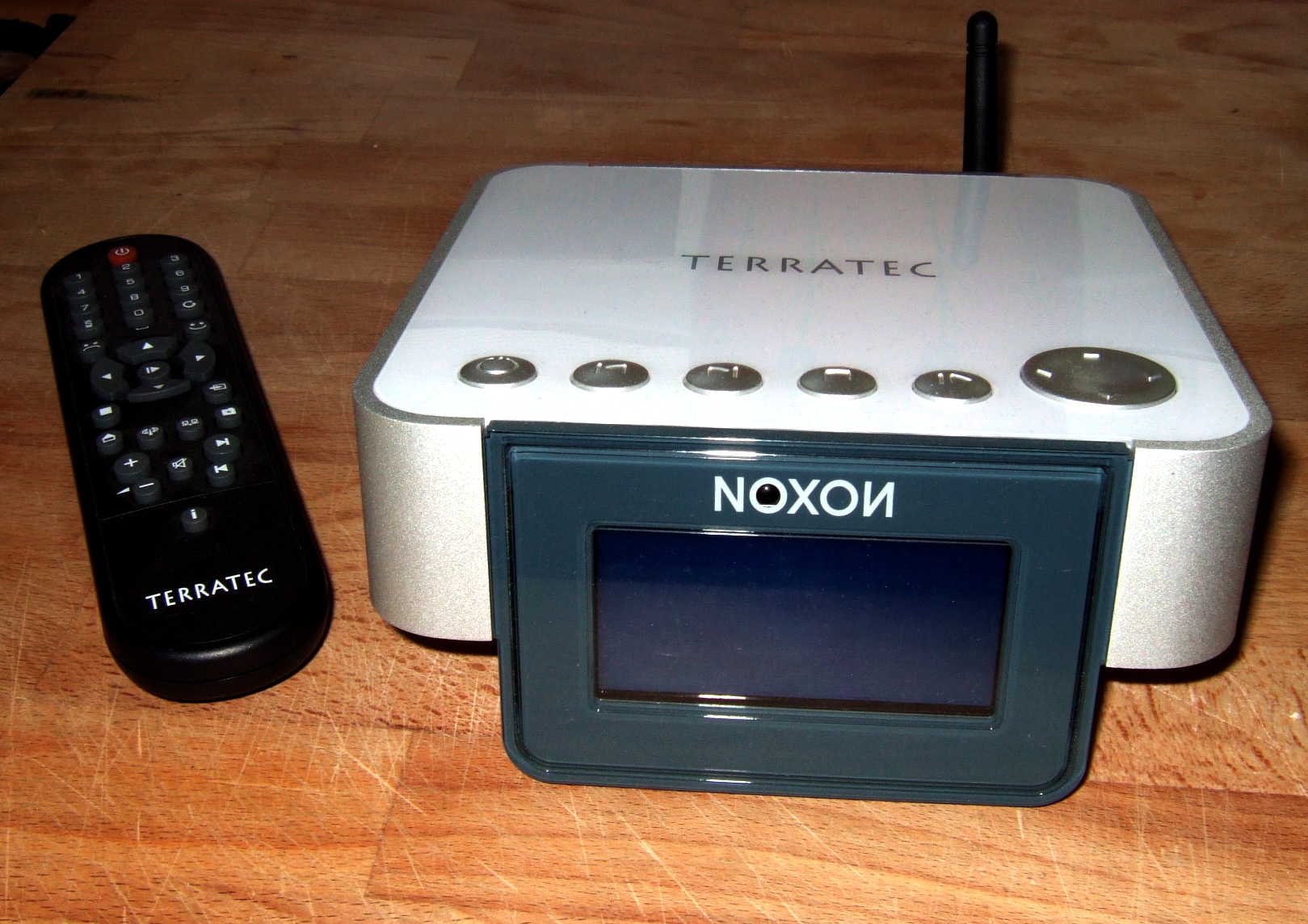 Noxon 2 Internetradio